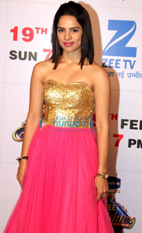 Sikha Singh at Zee rishtey Awards 2016